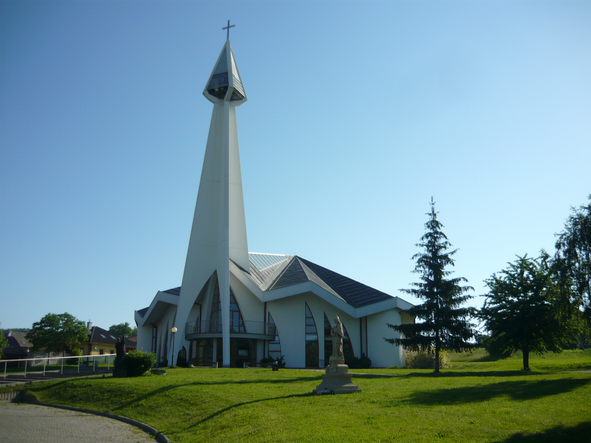 Church of the Divine Mercy in Jacovce, Slovakia.